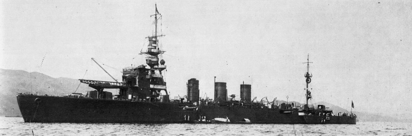 Japanese light cruiser Kinu off Kyushu in 1931.